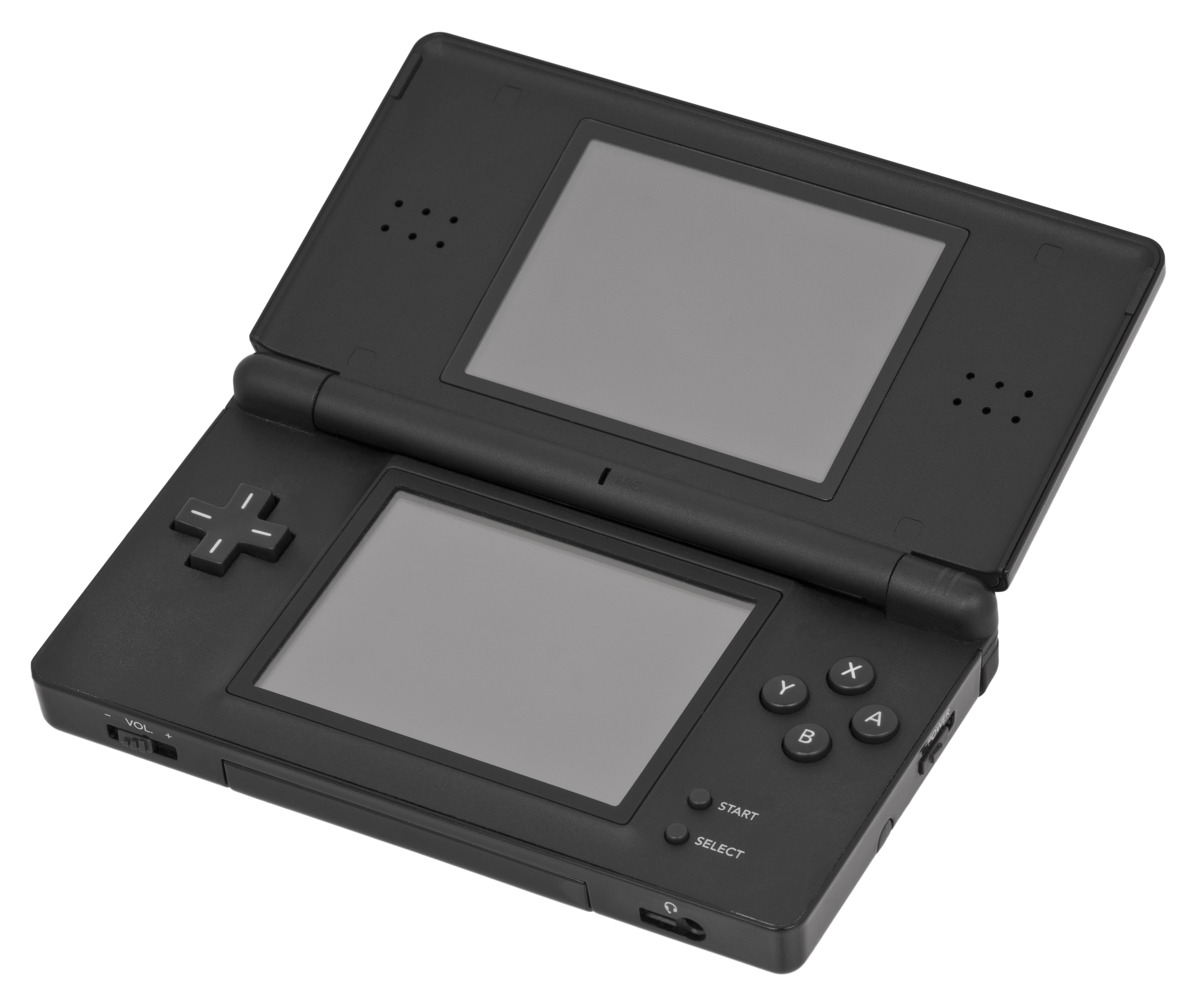 A black Nintendo DS Lite, shown open.